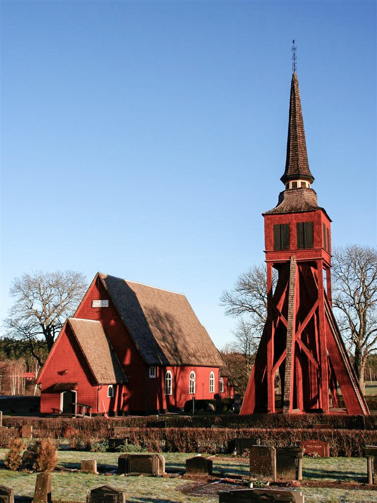 Ulrika Church